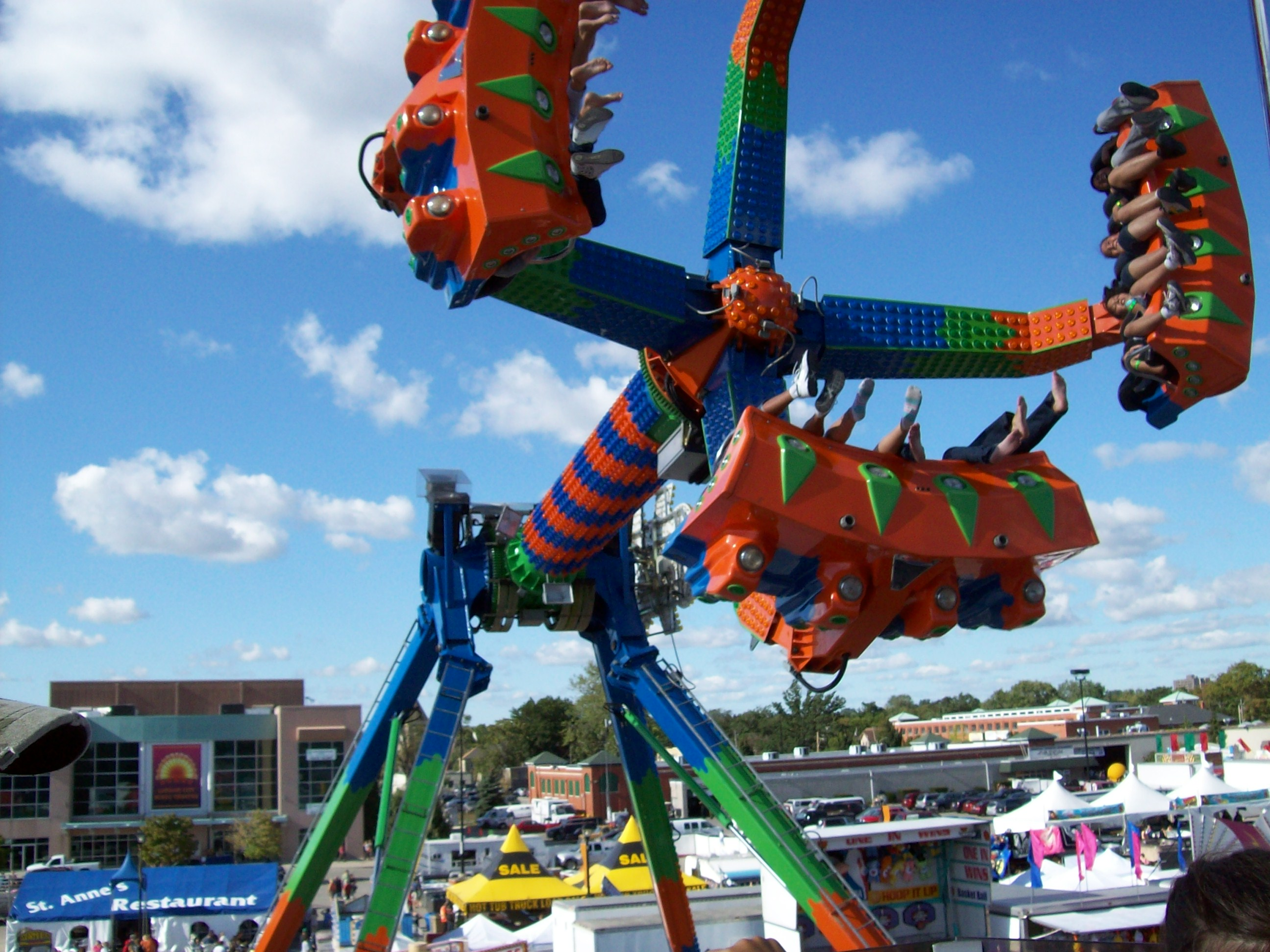 Western Fair 2008 London Ontario Canada